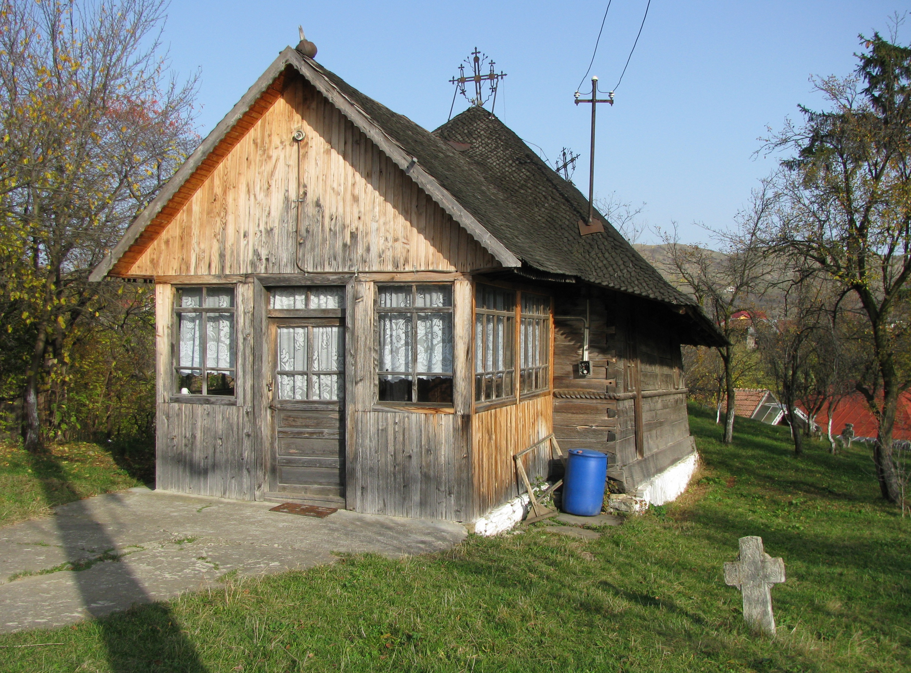 Wooden church "Cuvioasa Paraschiva" - Gărbeasca from Starchiojd village, Starchiojd commune, Prahova county, Romania